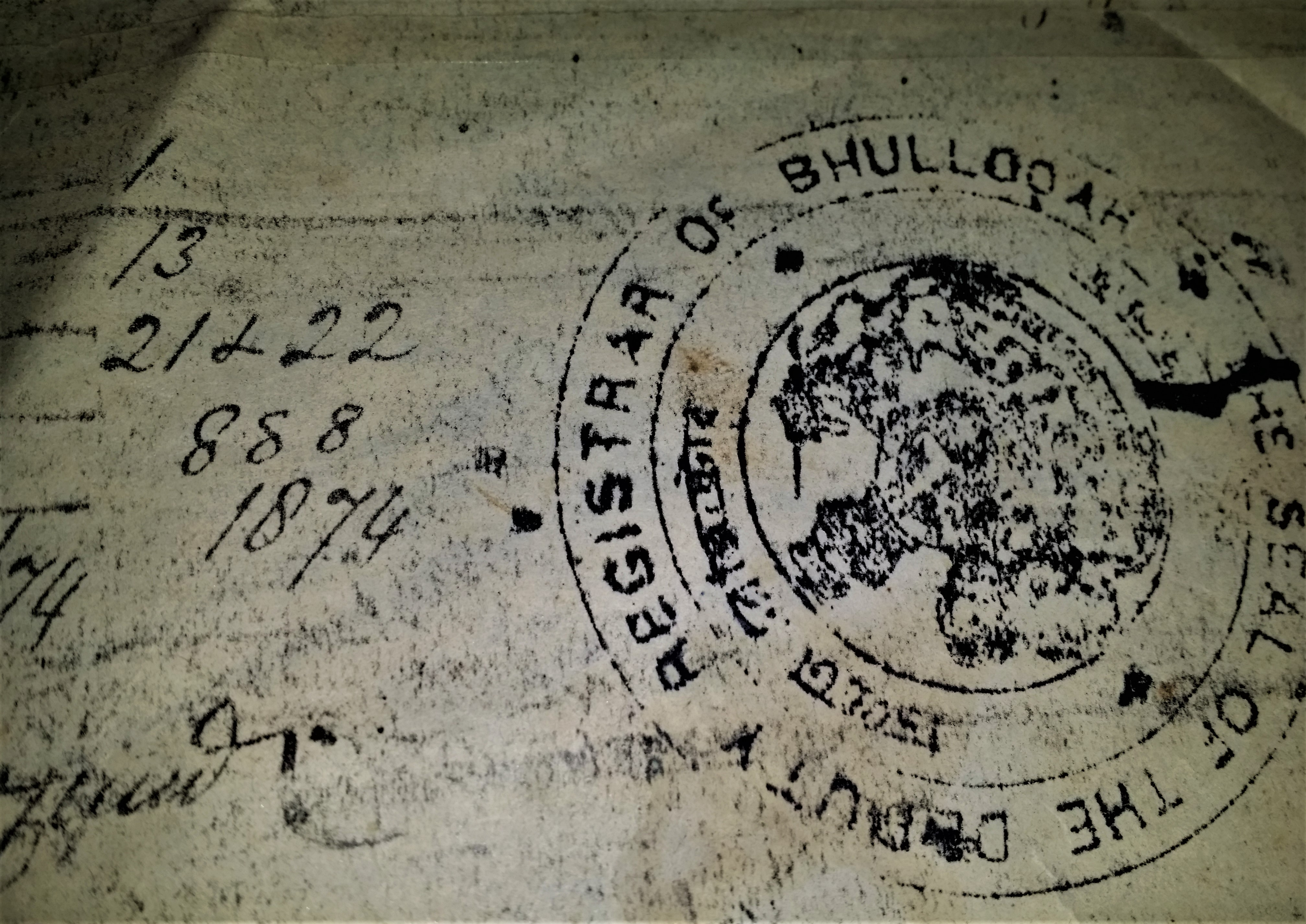 A seal of Bhullooah (Noakhali) Registrar on 20th march 1874.